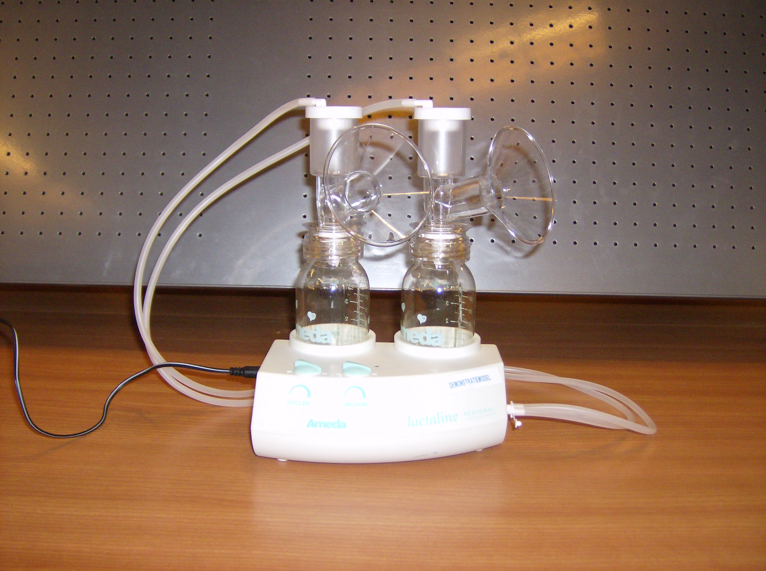 ameda lactaline personal breast pump breastfeeding breast milk expression